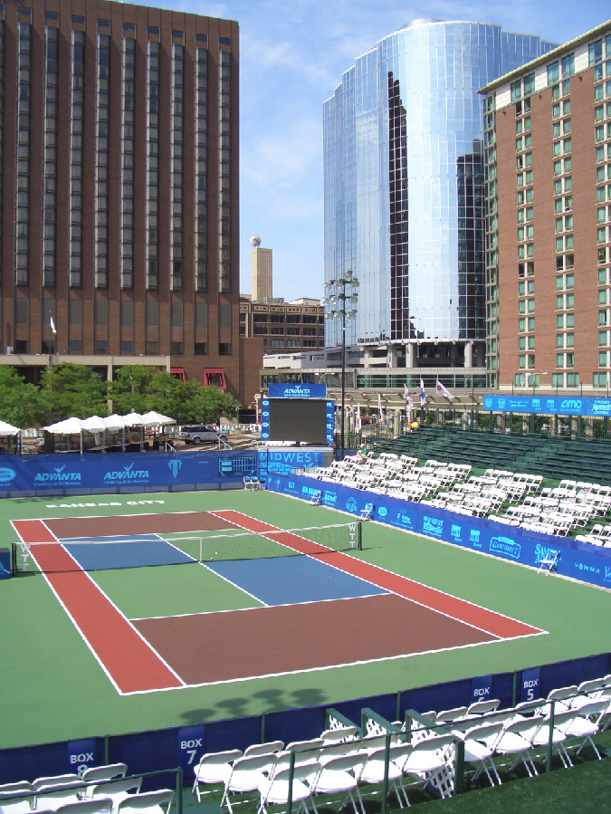 World Team Tennis court at Barney Allis Plaza, in downtown Kansas City, Missouri